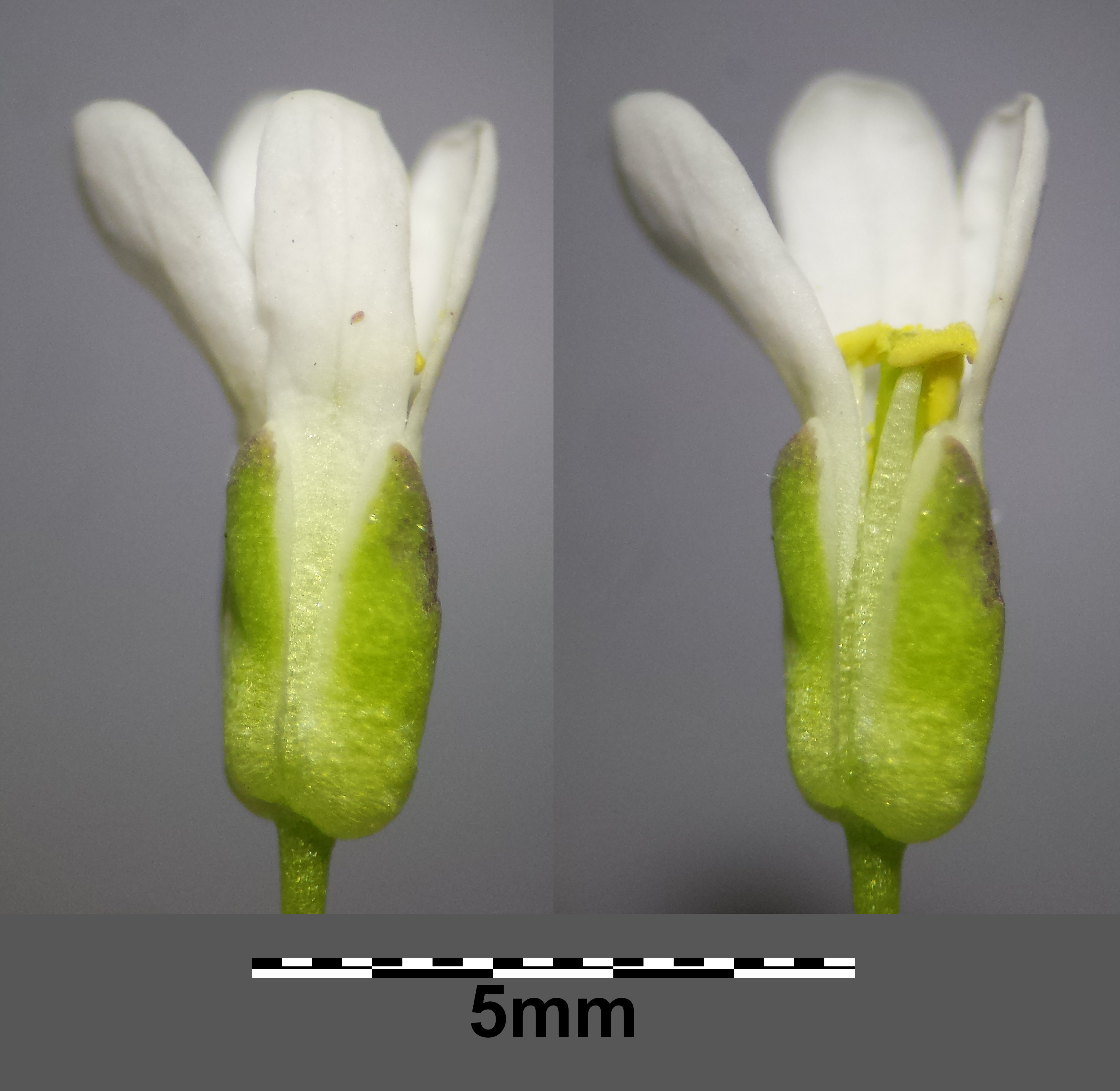 Flower, opened on the right Taxonym: Arabis sagittata ss Fischer et al. EfÖLS 2008 ISBN 978-3-85474-187-9 Location: Raingrubenhöhe next to Bruderndorf, district Korneuburg, Lower Austria - ca. 270 m a.s.l. Habitat: dry meadows